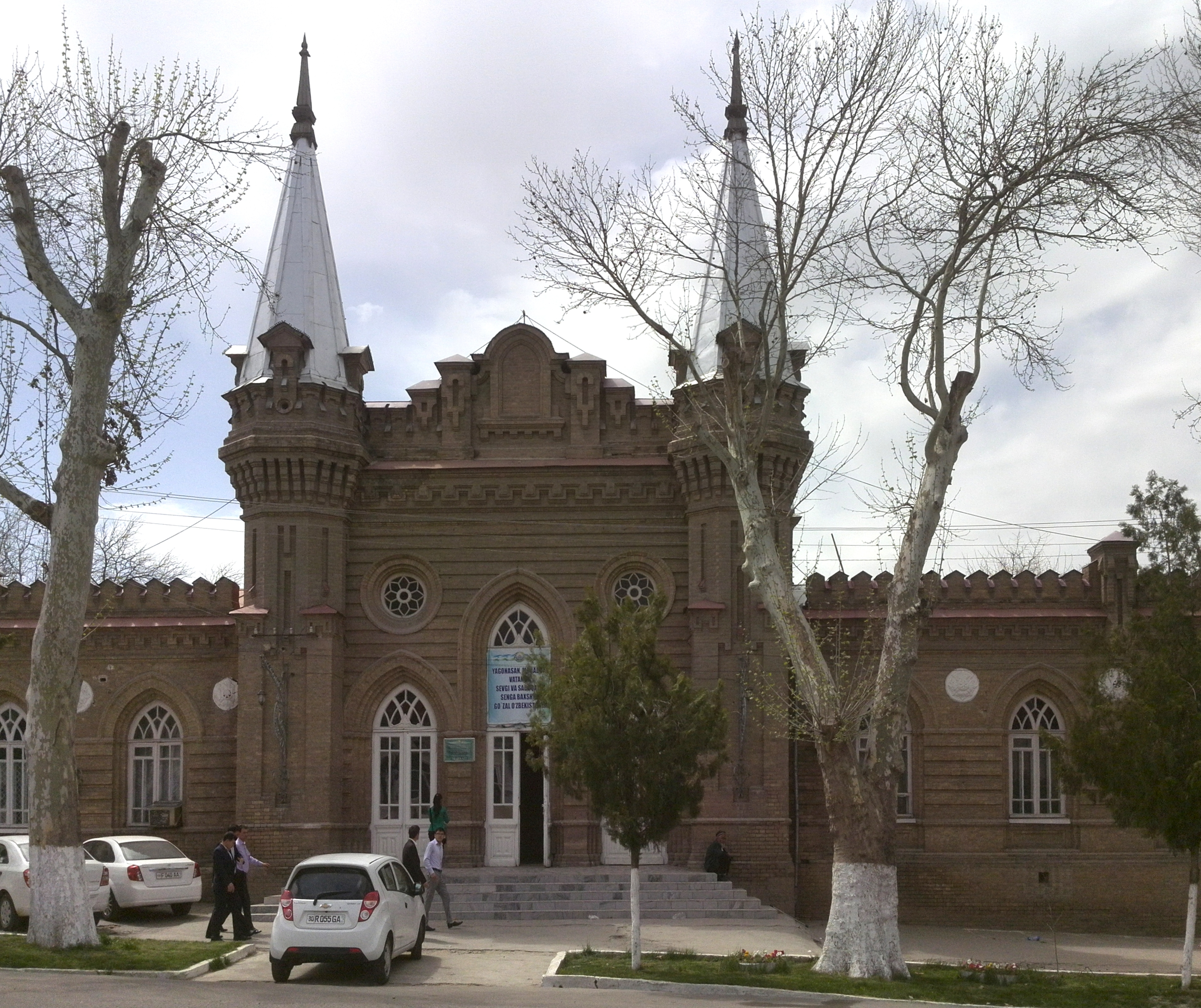 Samarqand city library named after Al-Biruni